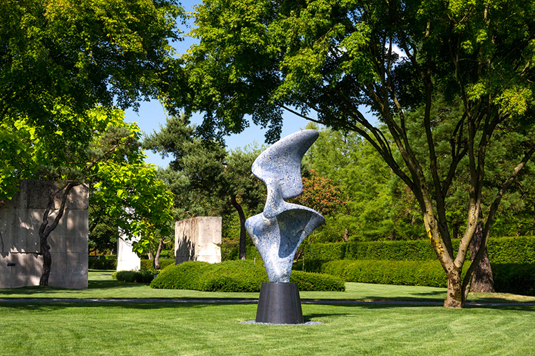 Richard Erdman blue granite sculpture Sentinel